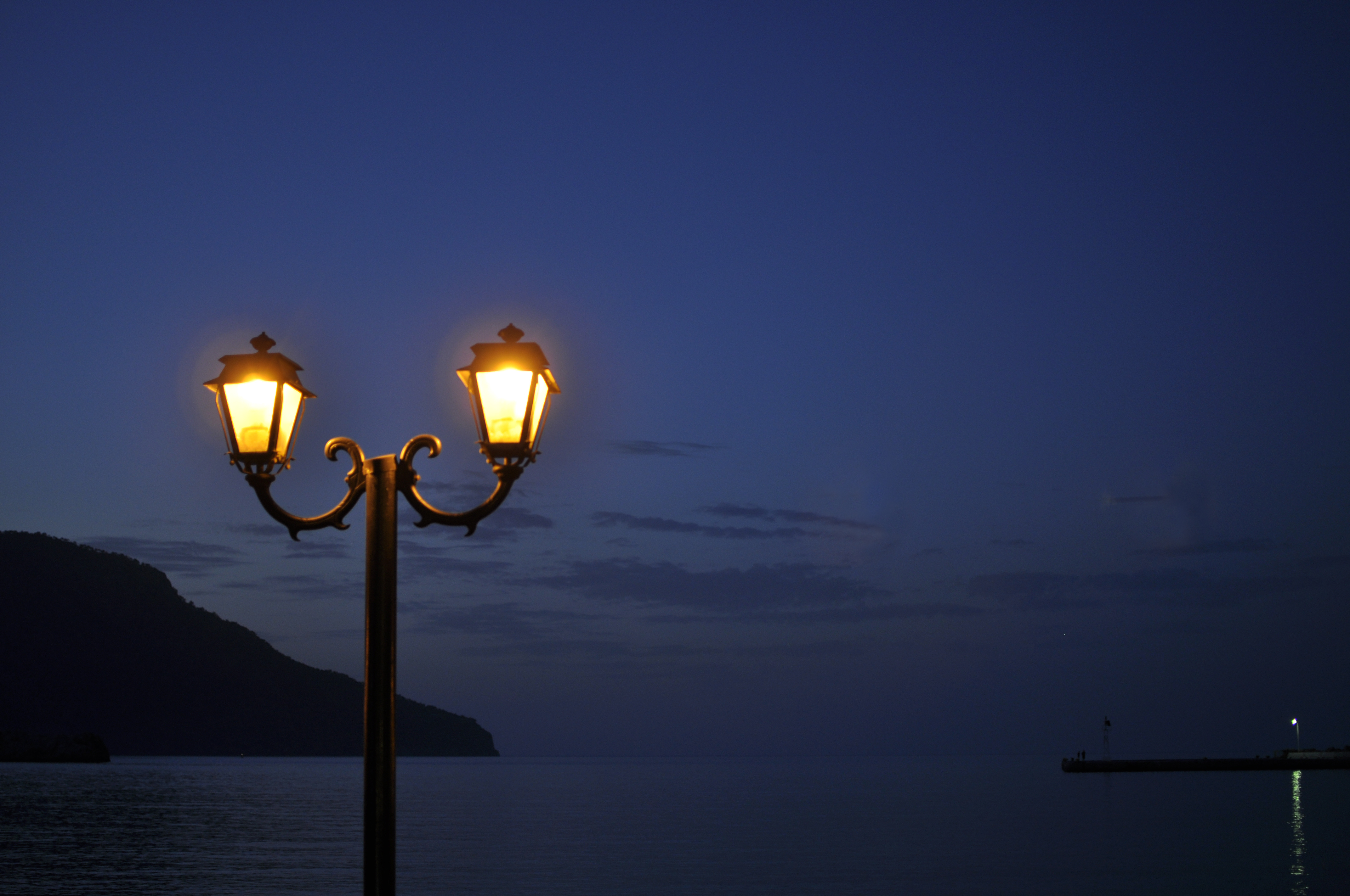 Karpathos harbor.